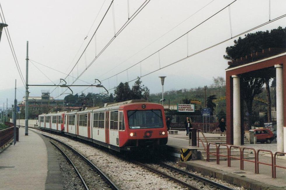 A typical train of SFSM, a.k.a. Ferrovia Circumvesuviana, Italy.